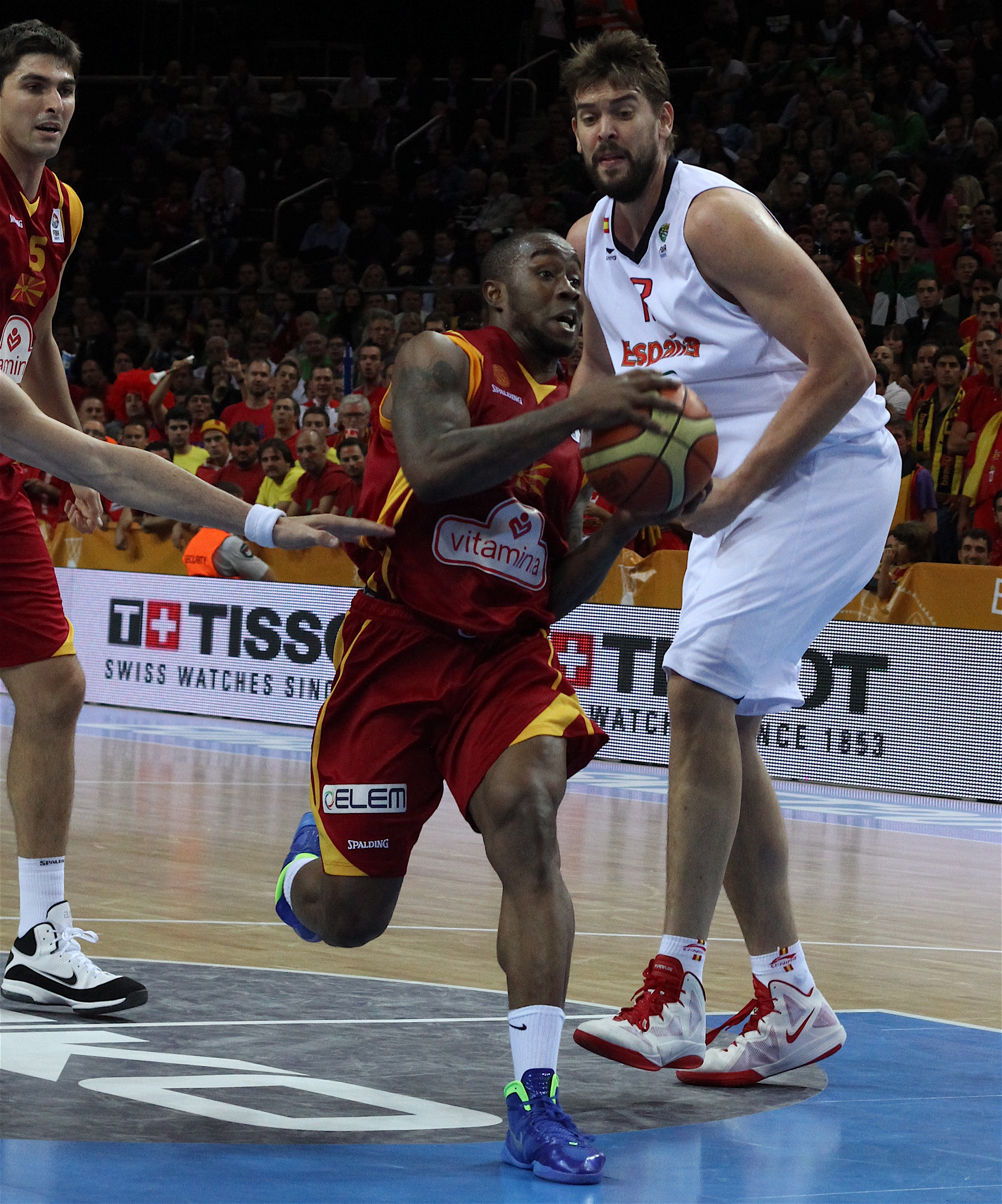 Posted via email from Globalite Magazine